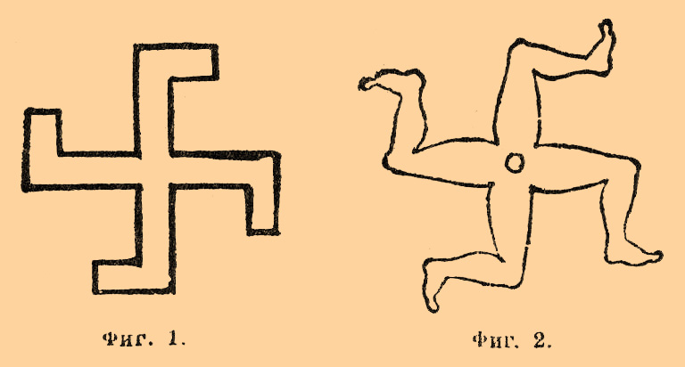 Illustration from Brockhaus and Efron Encyclopedic Dictionary(1890—1907)